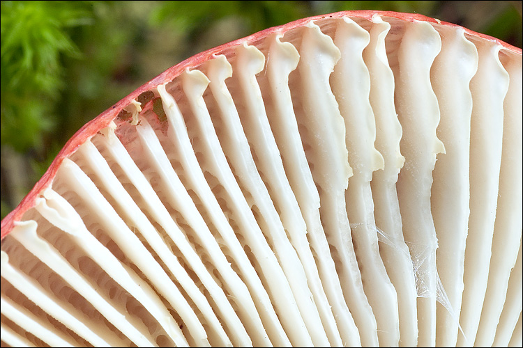 Close-up the the gills of the agaric mushroom Russula emetica. Specimen collected from Zadnjica Valley, East Julian Alps, Posočje, Slovenia. See Mushroom Observer page for more extensive collection notes.